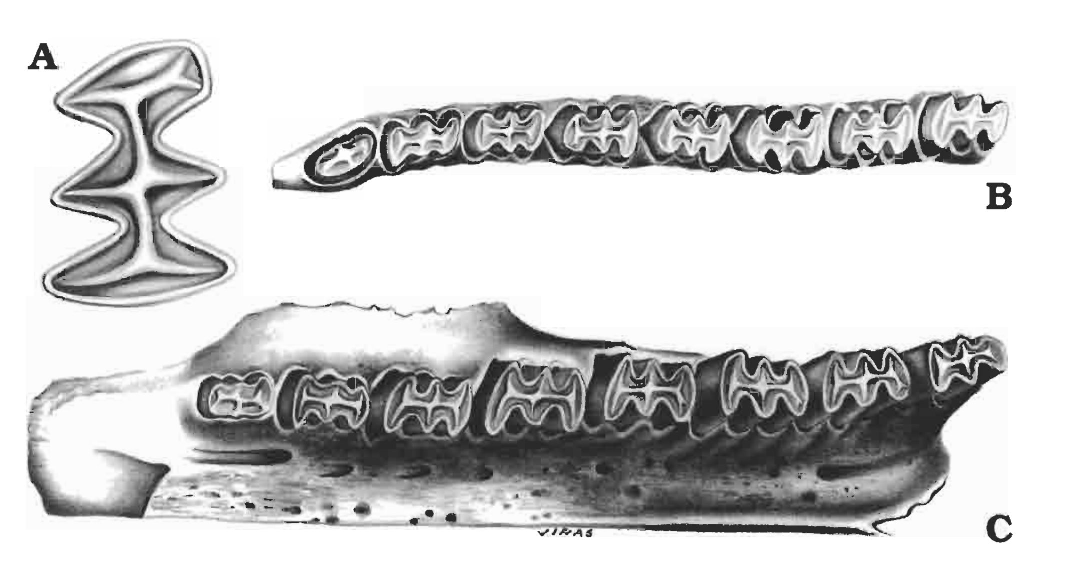 A. Tooth in occlusal view (anterior is down). B. Lower tooth row (anterior is to the left). C. Upper tooth row (anterior is to the left)